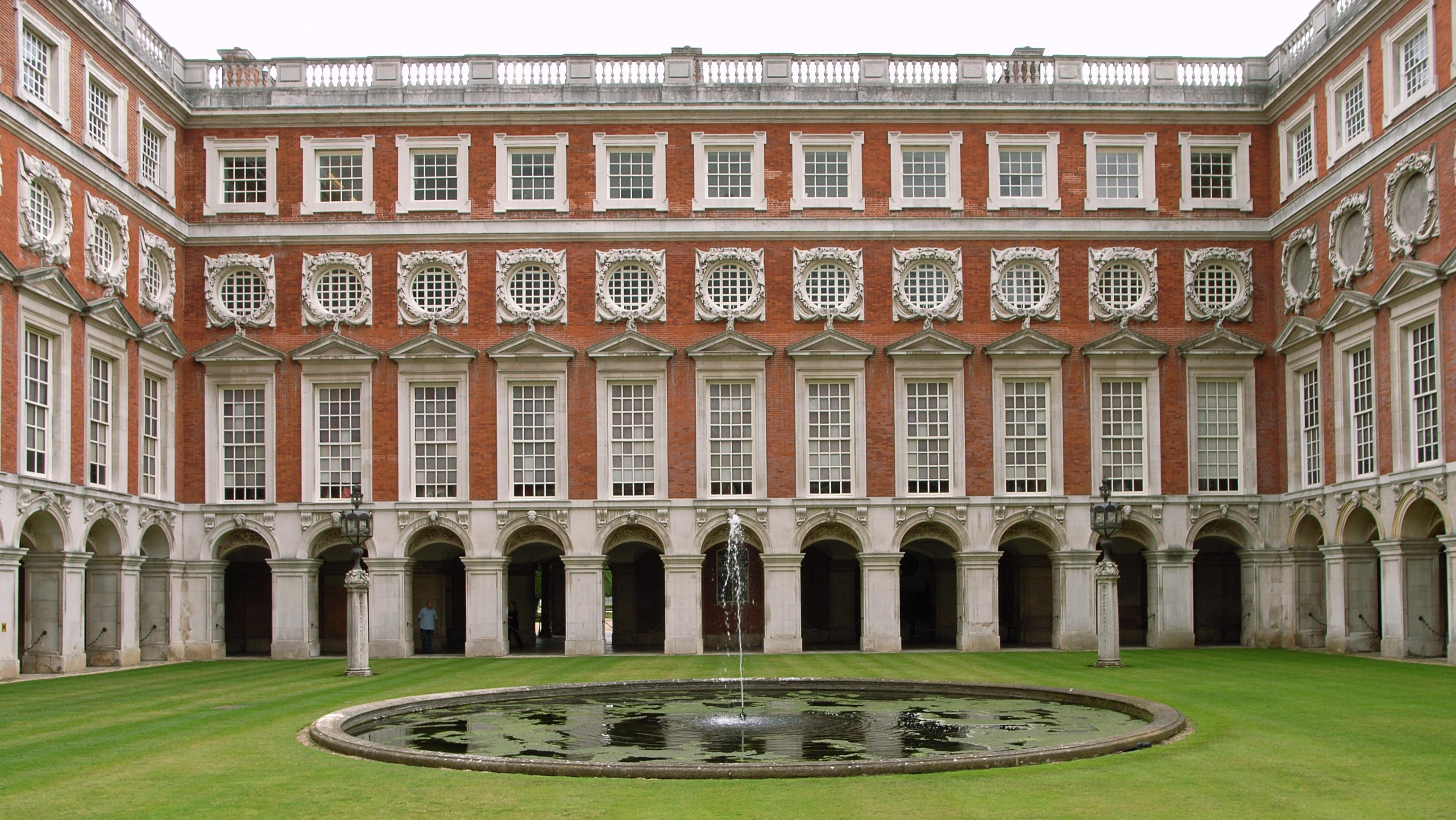 Hampton Court (1689-1702) by Christopher Wren. Fountain Court.